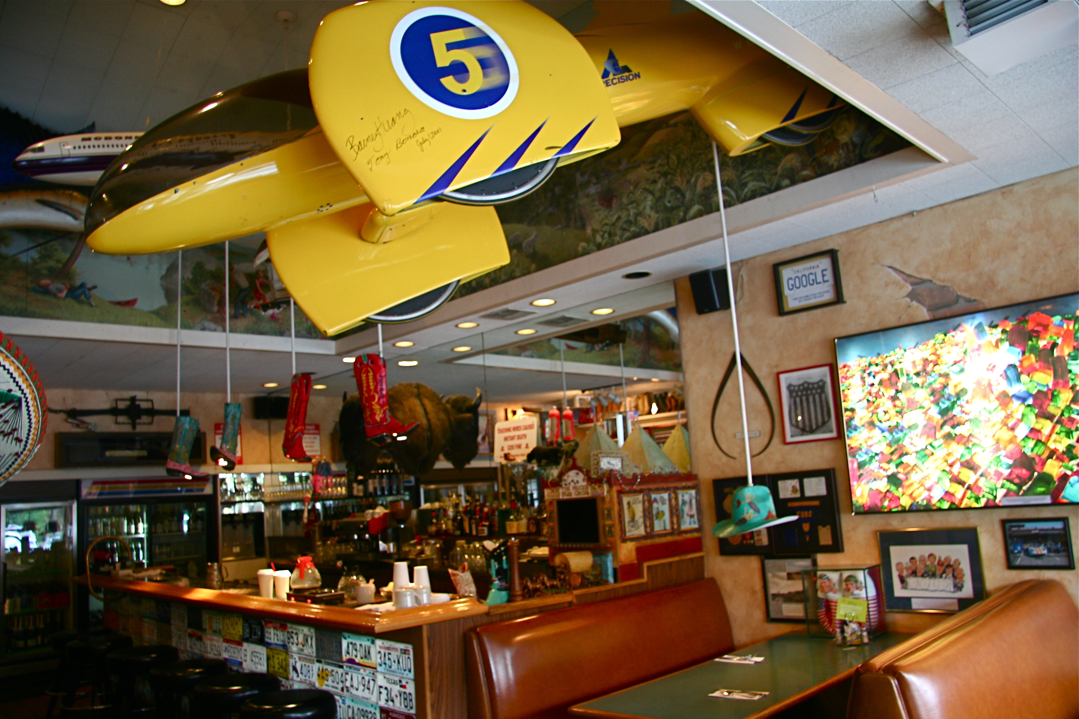 Sand Hill Road in Menlo Park is the epicenter of Silicon Valley's venture capital scene, but 15 minutes up the road is a roadside diner nestled in the woods where many startup funding deals are hatched over plates of pancakes and eggs. Buck's Restaurant in Woodside is where startup veteran Marylene Delbourg-Delphis reflected on a legacy distinguishing her as one of the first European women to start a tech company in Silicon Valley. Intel Free Press story: Silicon Valley Women: The Duchess of Tech Startups - A Serial Entrepreneur Shares Her Secrets for Technology Startup Success.